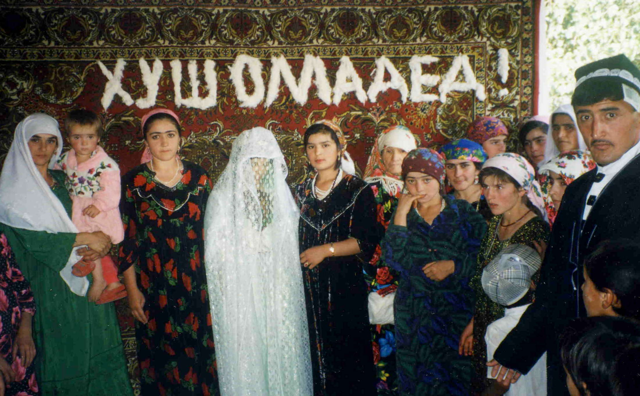 Traditional Tajik wedding, with modern Russian writing on the wall behind them.